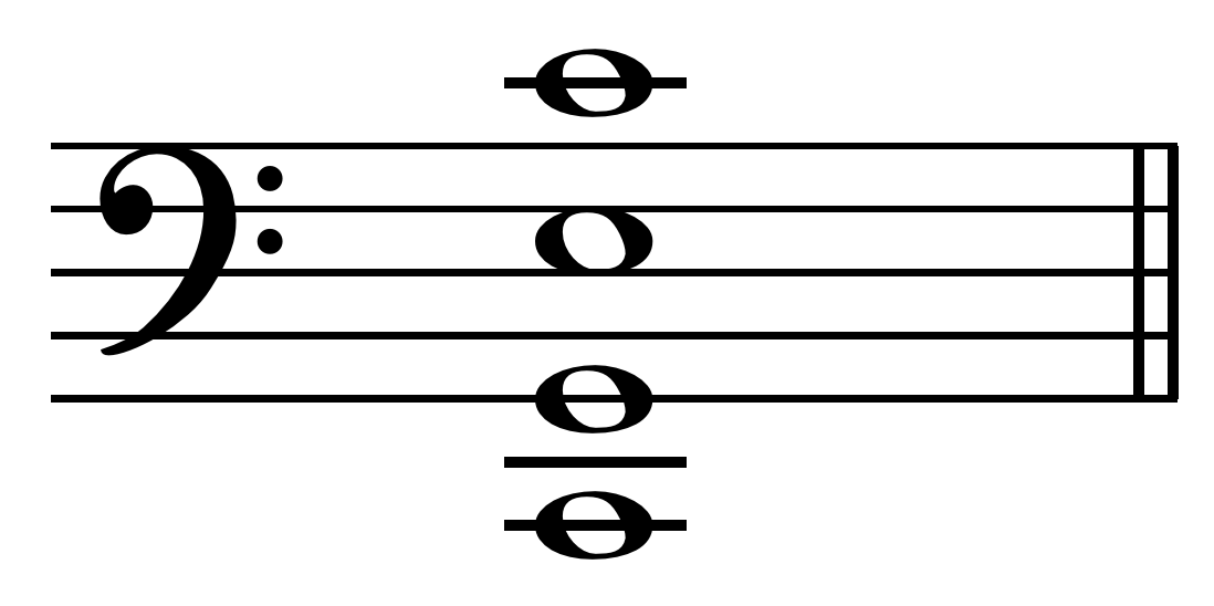 Violoncello chord on C. Created by Hyacinth (talk) 09:15, 12 June 2010 using Sibelius 5. See: File:Violoncello_chord_on_C.mid